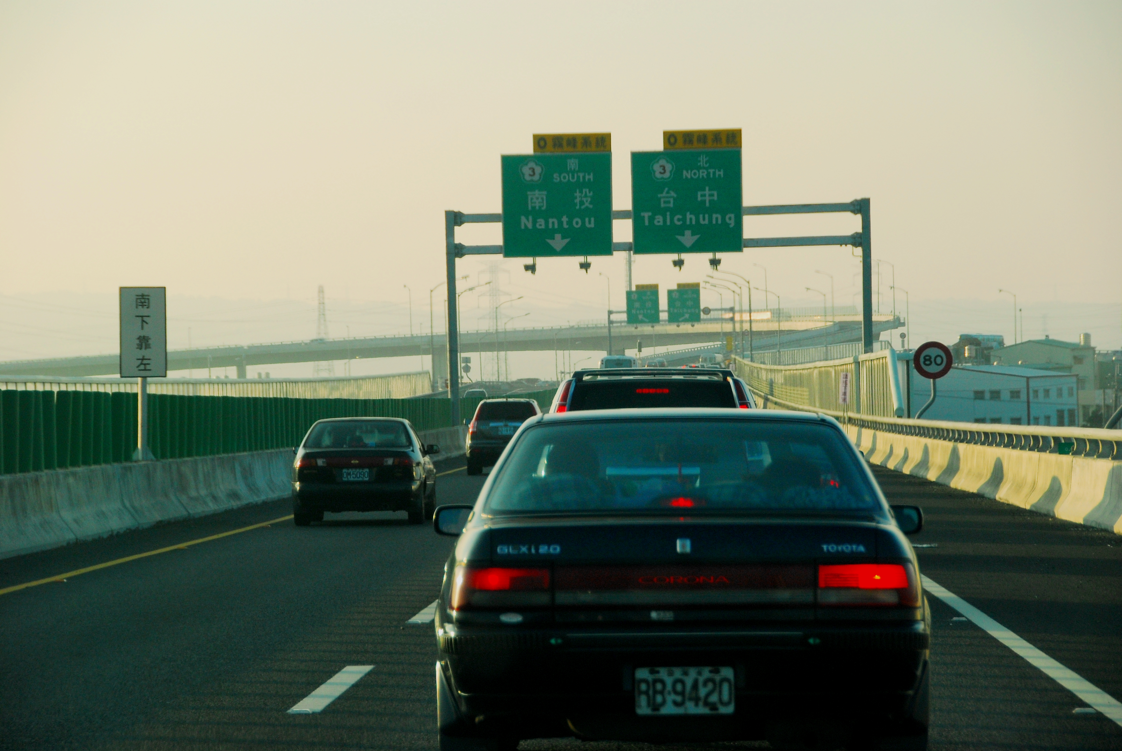 Wufeng Junction at Wufeng District, Taichung, Taiwan, the west end of the Taiwan No6 National Highway.